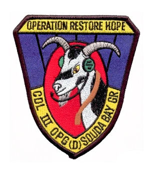 Emblem of Operation Restore Hope